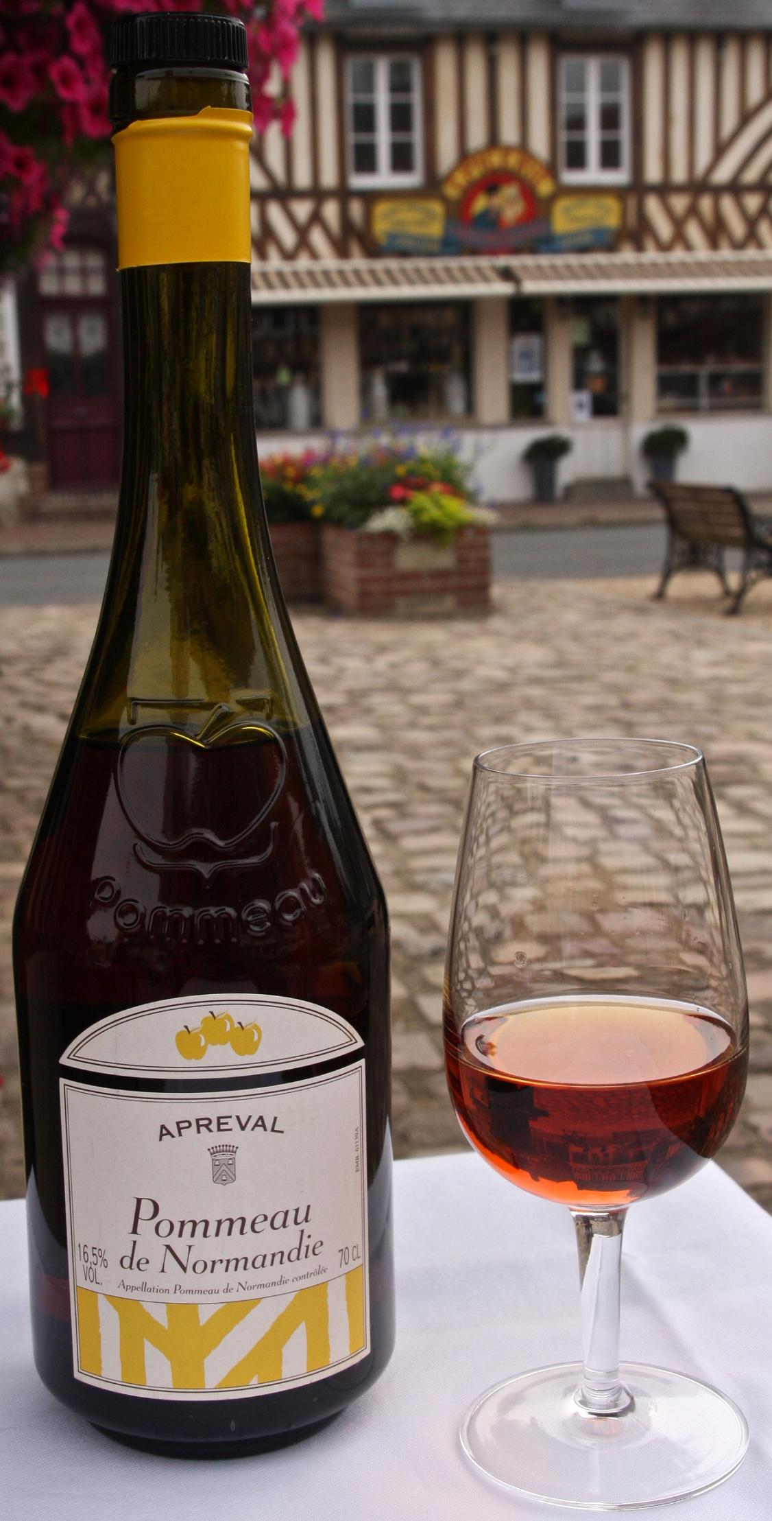 A bottle and a glass of Normandy Pommeau